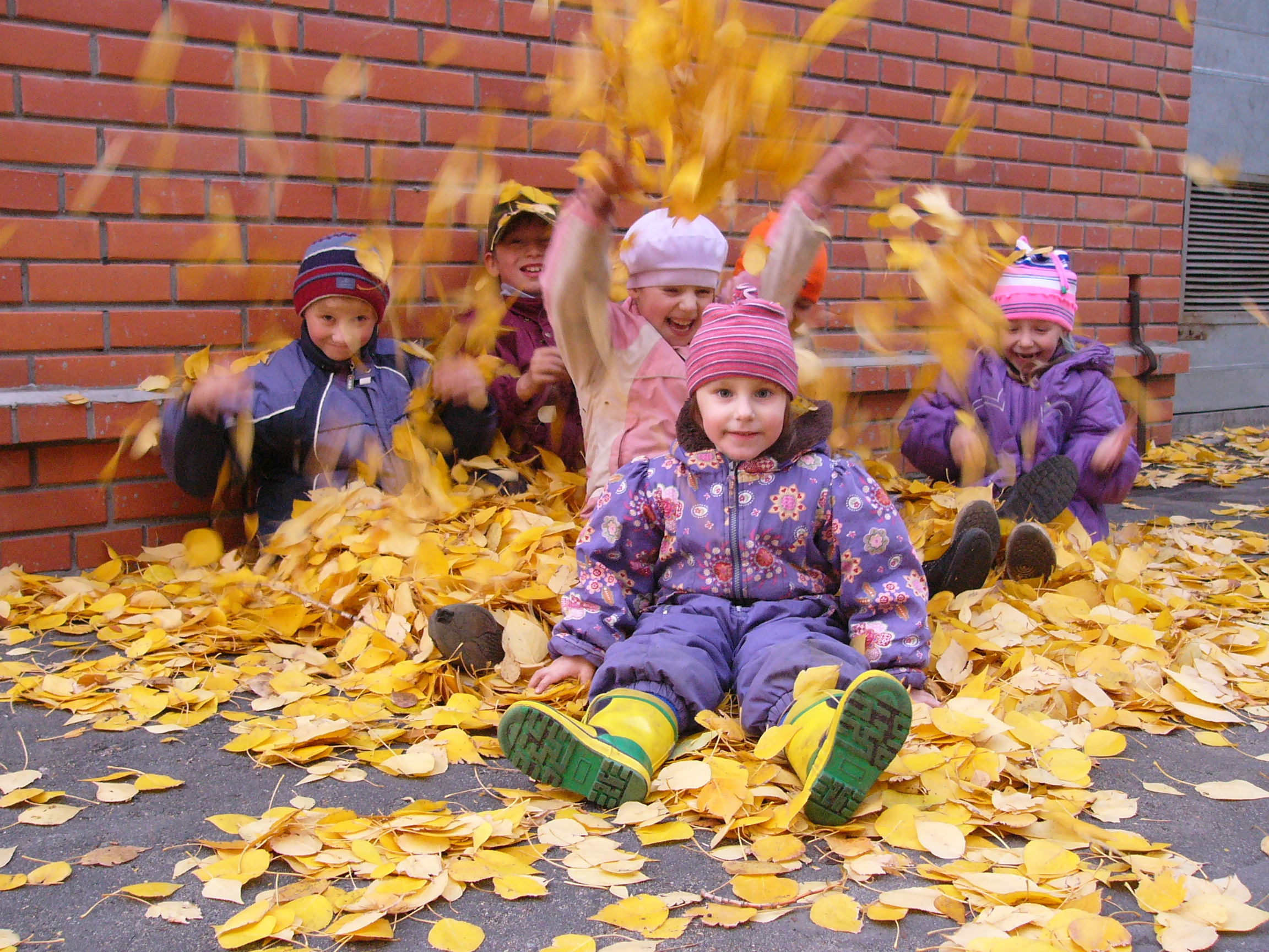 Детская деревня-SOS .Кандалакша. Мурманская область. Россия